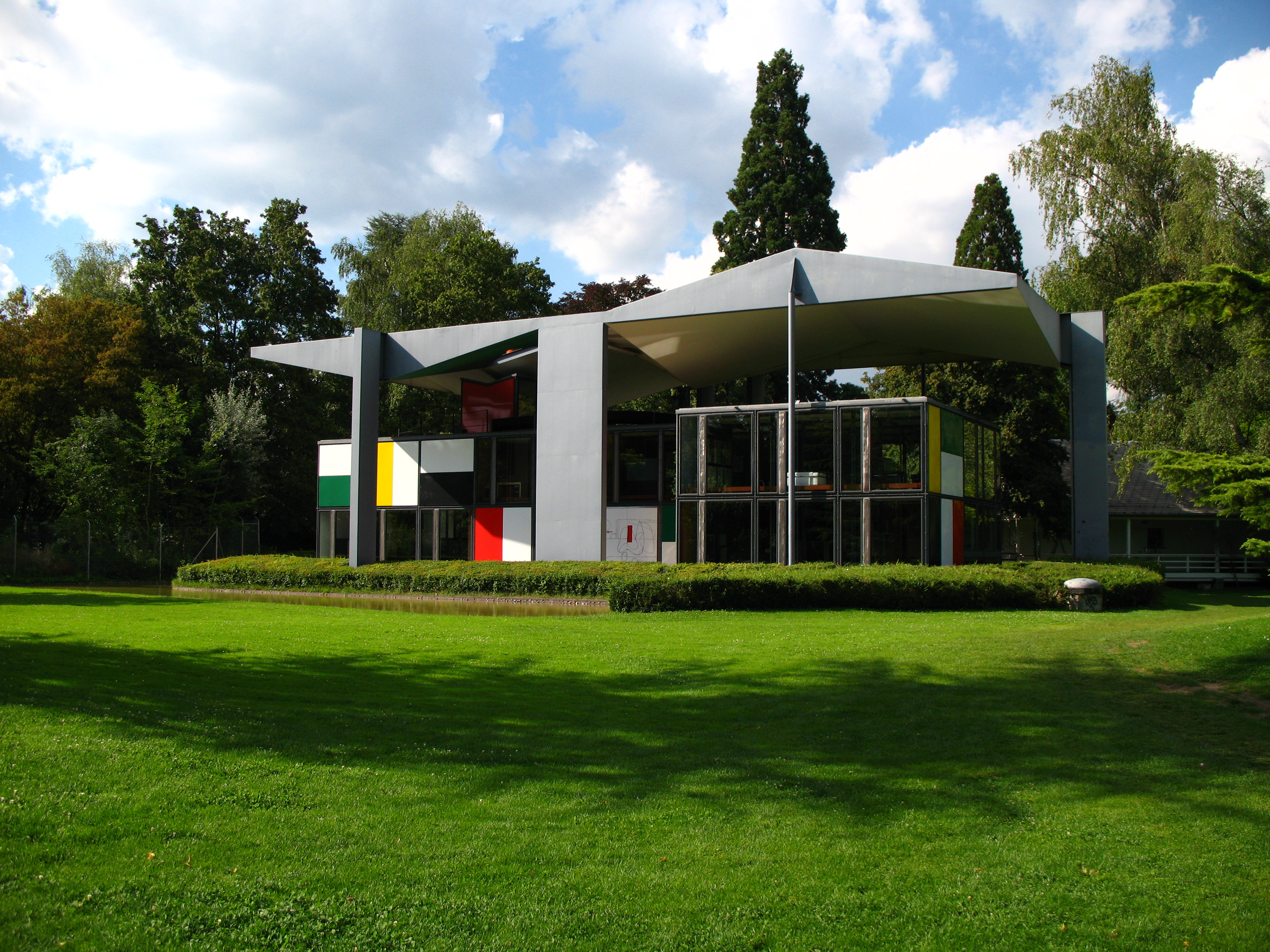 House designed by Le Corbusier and the Heidi Weber Museum, Zürich, Switzerland